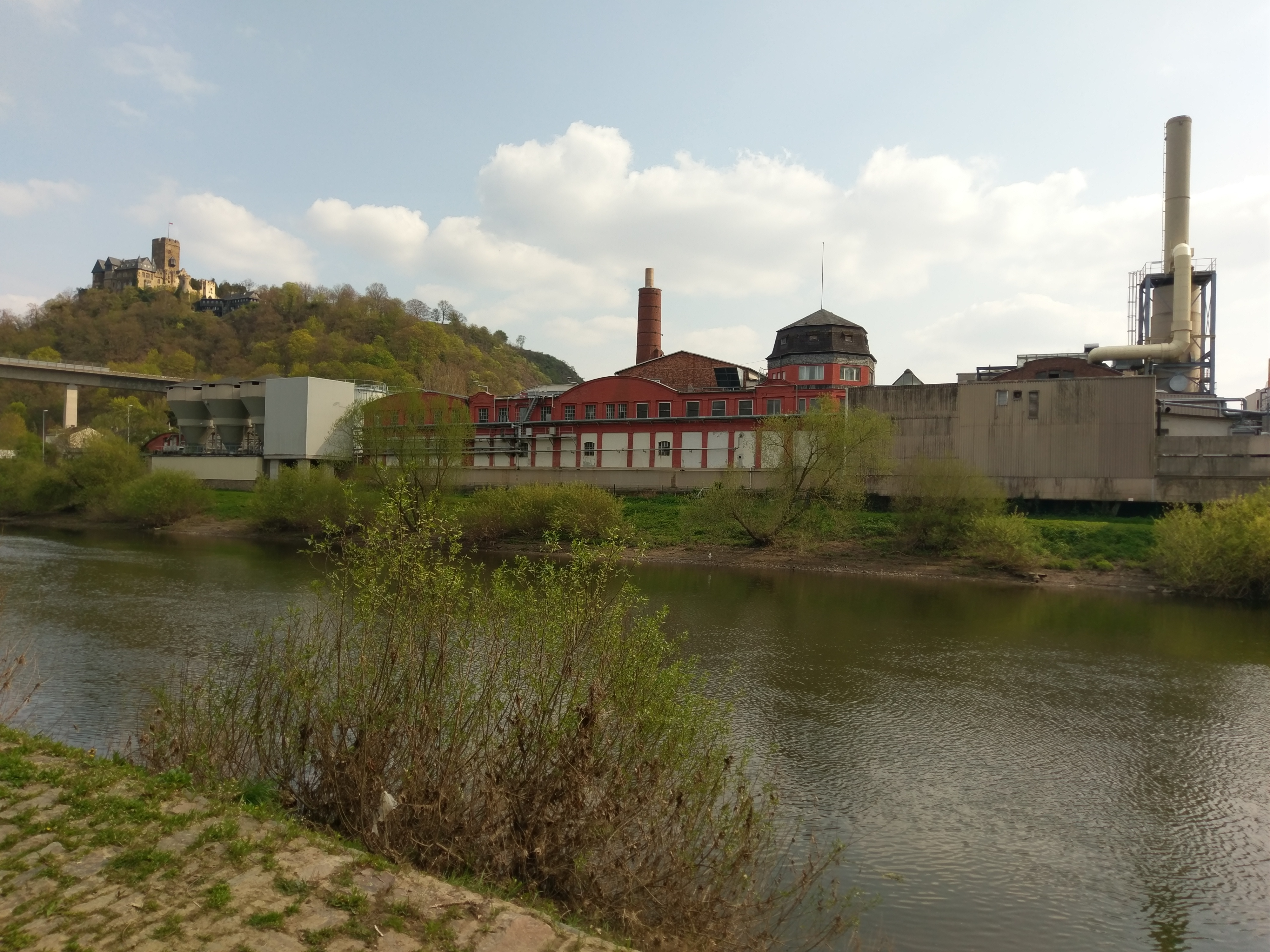 Factory site of the former Feldmühle AG, then Papierfabrik Lahnstein, FiberMark, Neenah. Today Lahnpaper. Oberlahnstein, Germany